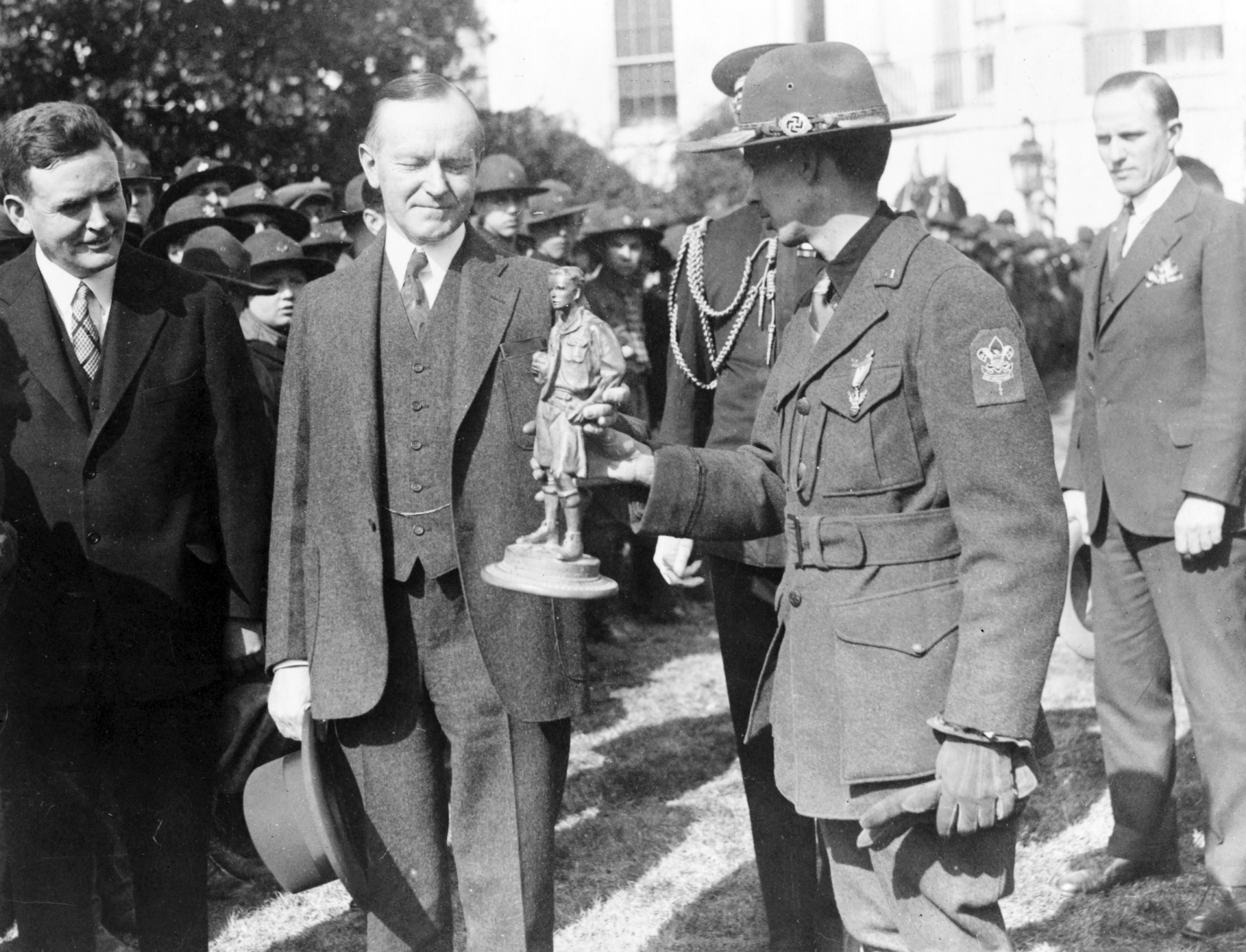 President Calvin Coolidge receiving statue of Boy Scout, outside the White House TITLE: President greets visiting Boy Scouts. 1500 Boy Scouts from N.Y., N.J., & Conn. making annual pilgrimage to the Capitol being greeted at the White House by President Coolidge CALL NUMBER: LOT 12299, v. 1 [P&P] Check for an online group record (may link to related items) REPRODUCTION NUMBER: LC-USZ62-111361 (b&w film copy neg.) No known restrictions on publication. SUMMARY: President Coolidge receiving statue of Boy Scout, outside the White House. MEDIUM: 1 photographic print. CREATED/PUBLISHED: [1927] NOTES: National Photo Company Collection. Item in album: v. 1, p. 18, no. 41143. FORMAT: Photographic prints 1920-1930. DIGITAL ID: (b&w film copy neg.) cph 3c11361 CARD #: 94508179 Courtesy of the library of congress